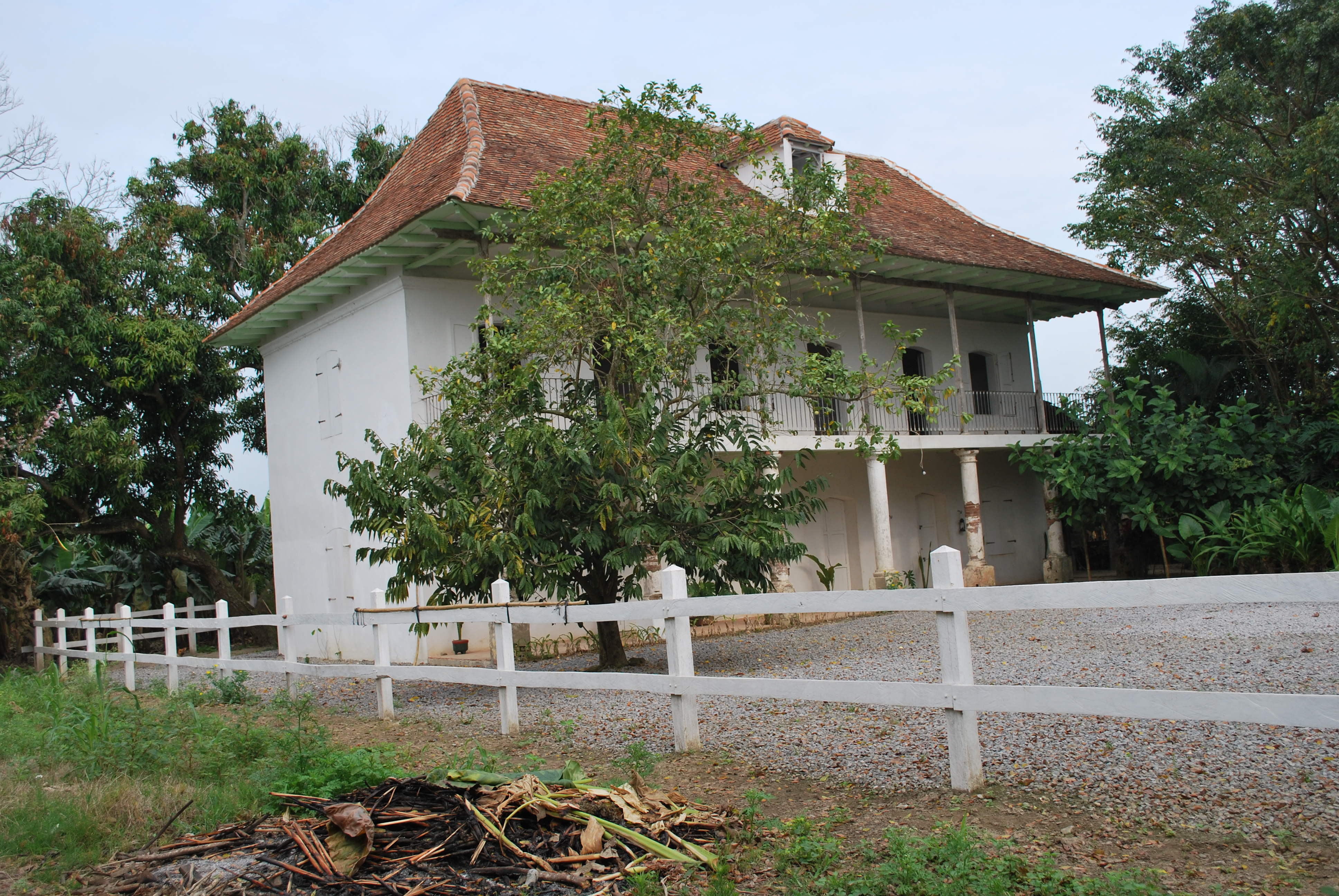 French hacienda house in Paso de Telaya, San Rafael, Veracruz